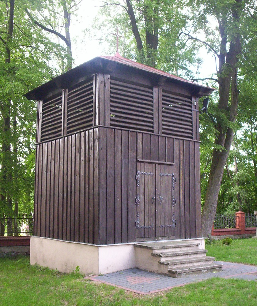 Belfry near church in Osuchów, Poland.